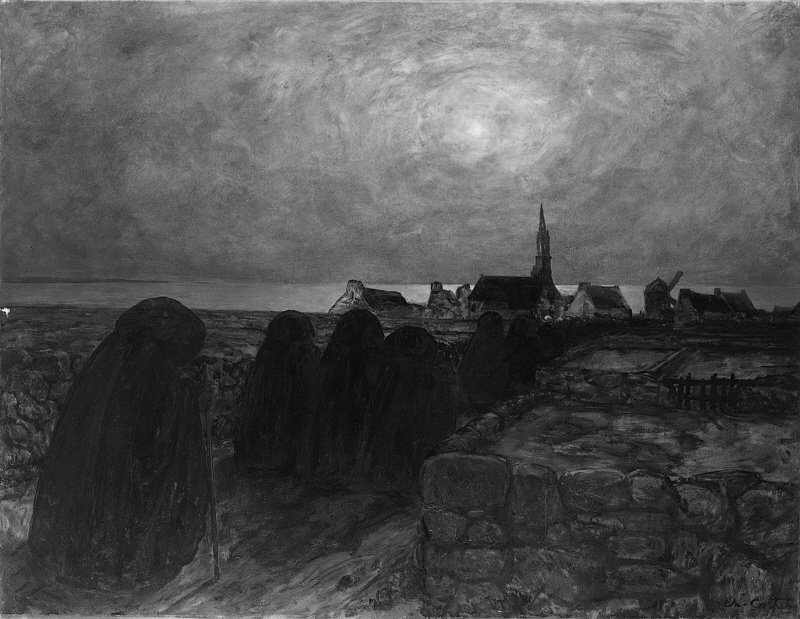 Low Mass